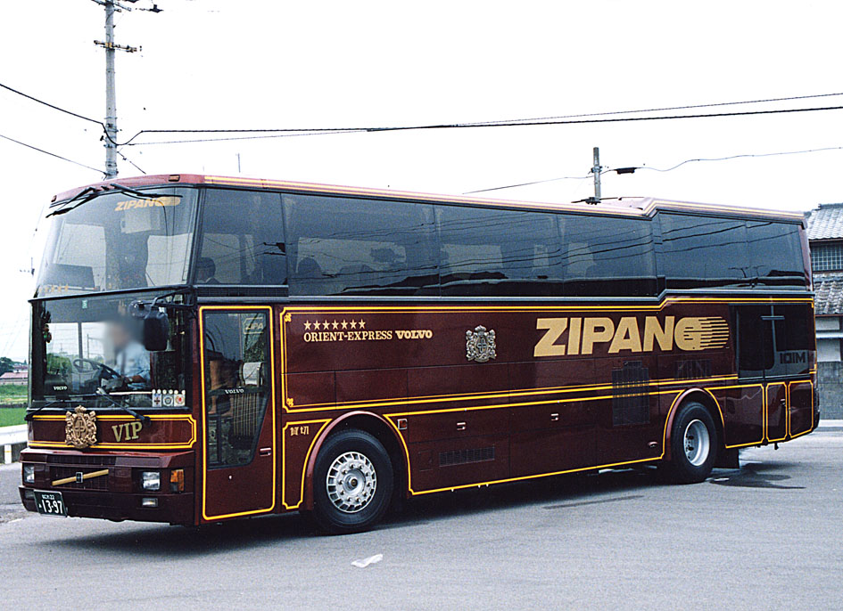 FHI Asterope coach with Volvo B10M chassis in Japan. Zipang operator.